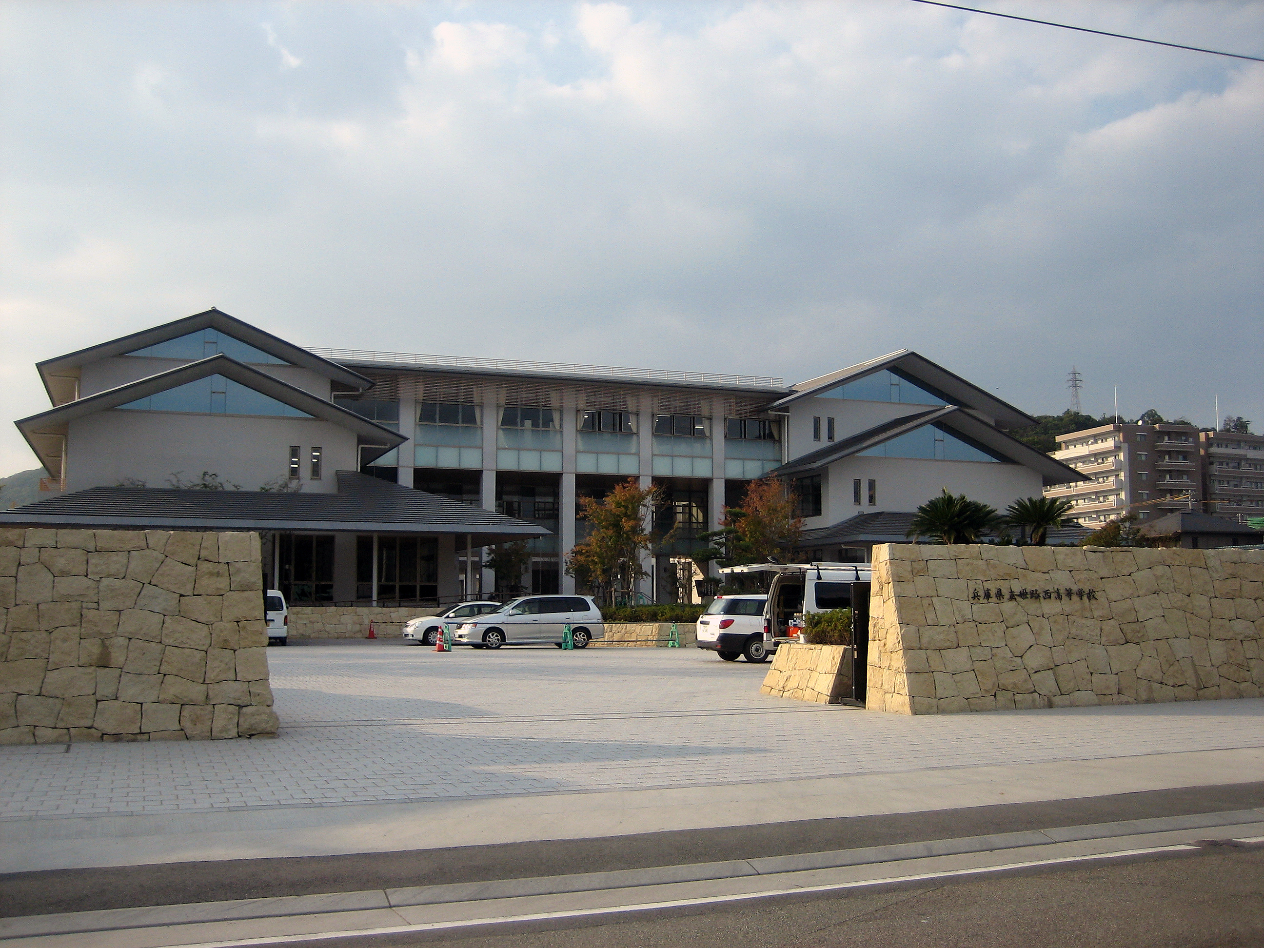 Himeji-Nishi senior high school is a senior high school in Himeji, Hyogo.